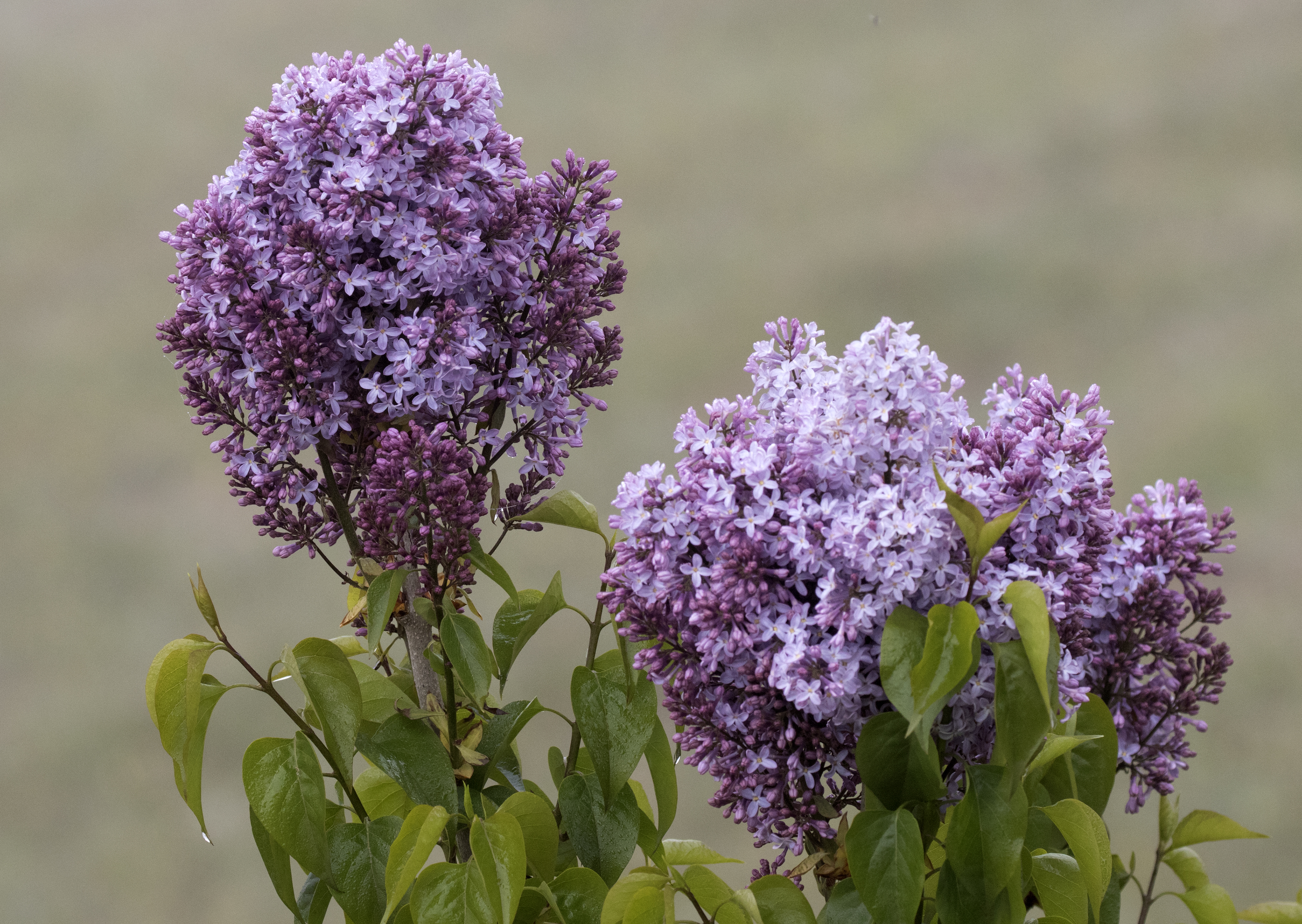 Lilac (Syringa sp). Güzelim - Tufanbeyli, Adana - Turkey.